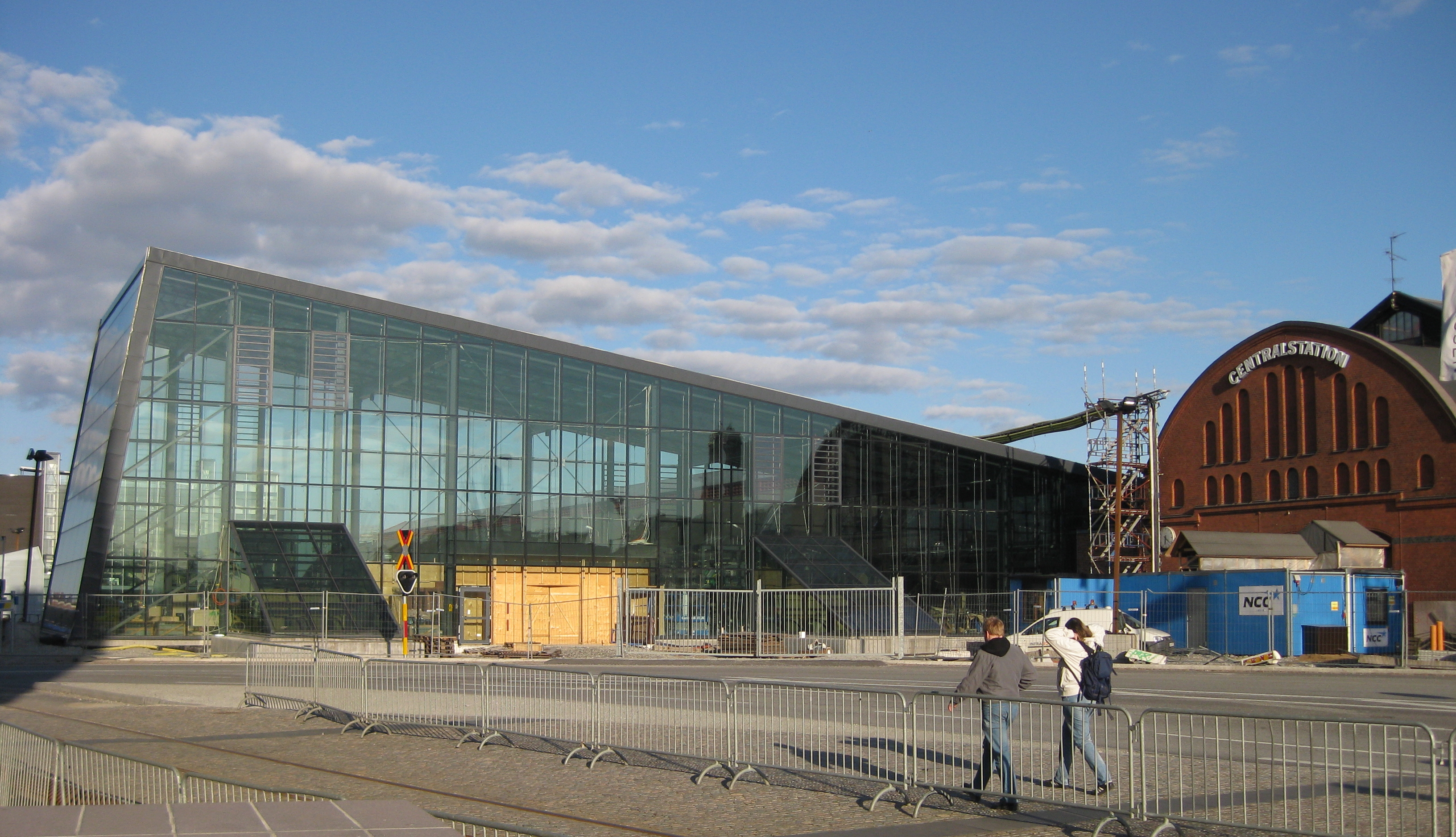 Glass entrance being built at Malmö Central Station